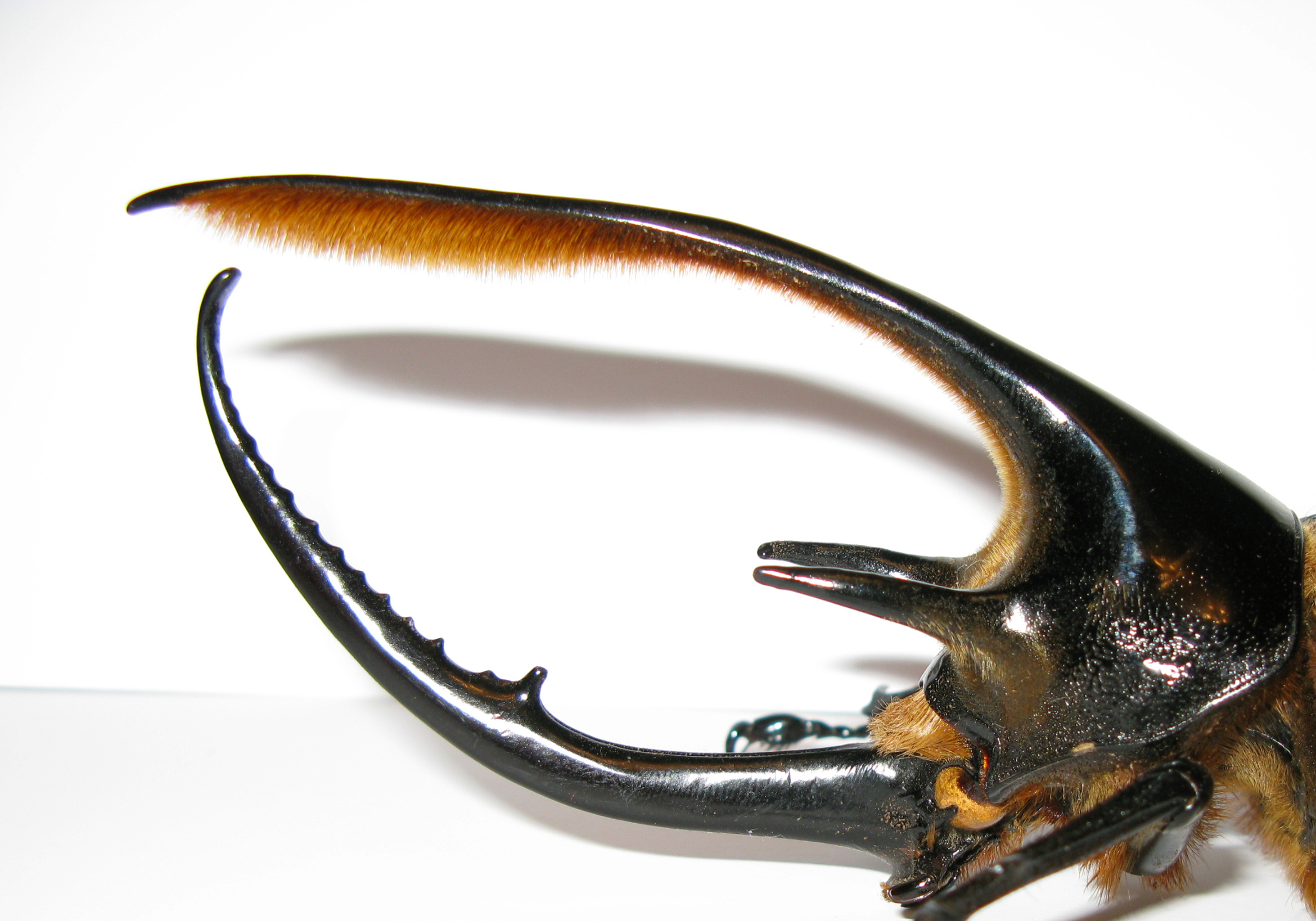 Dynastes neptunus. Male 145 mm. Colombia. Santander - La Belleza.